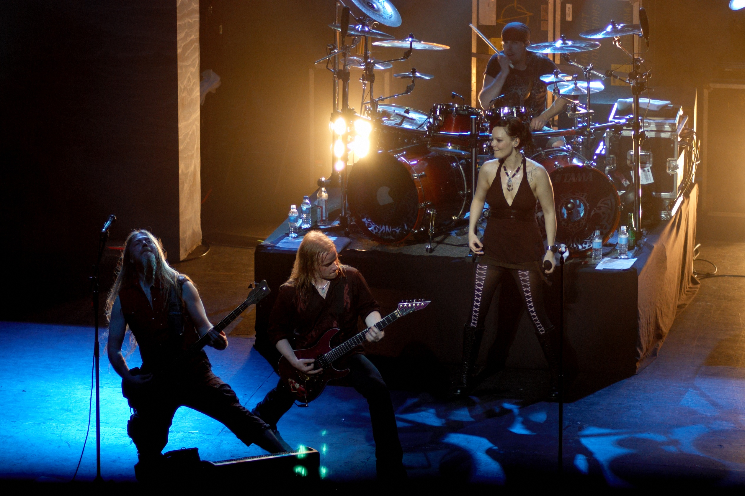 Nightwish Finnish metal band concert at The Palais, Melbourne.